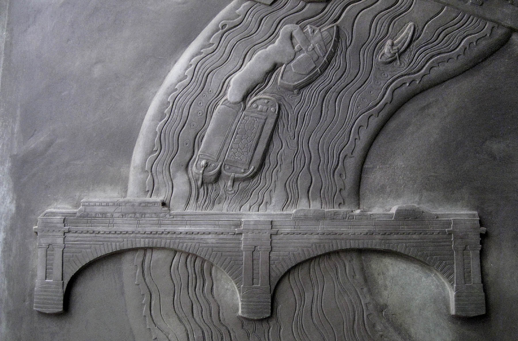 A detail of the left door of RIBA, showing the old Waterloo Bridge. James Woodford, 1934